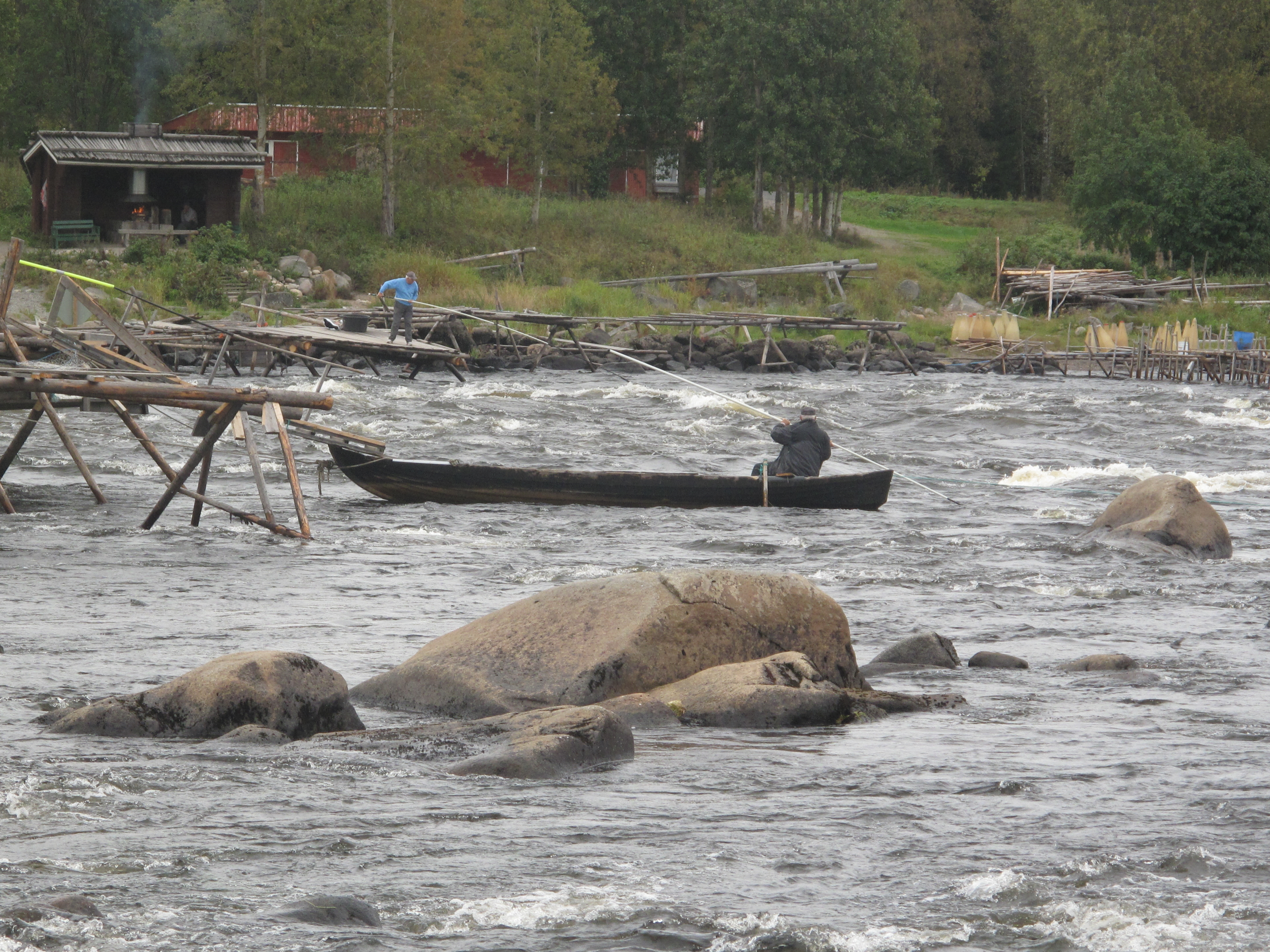 Fishing for Coregonus maraena with a hand net at Kukkolaforsen in Sweden